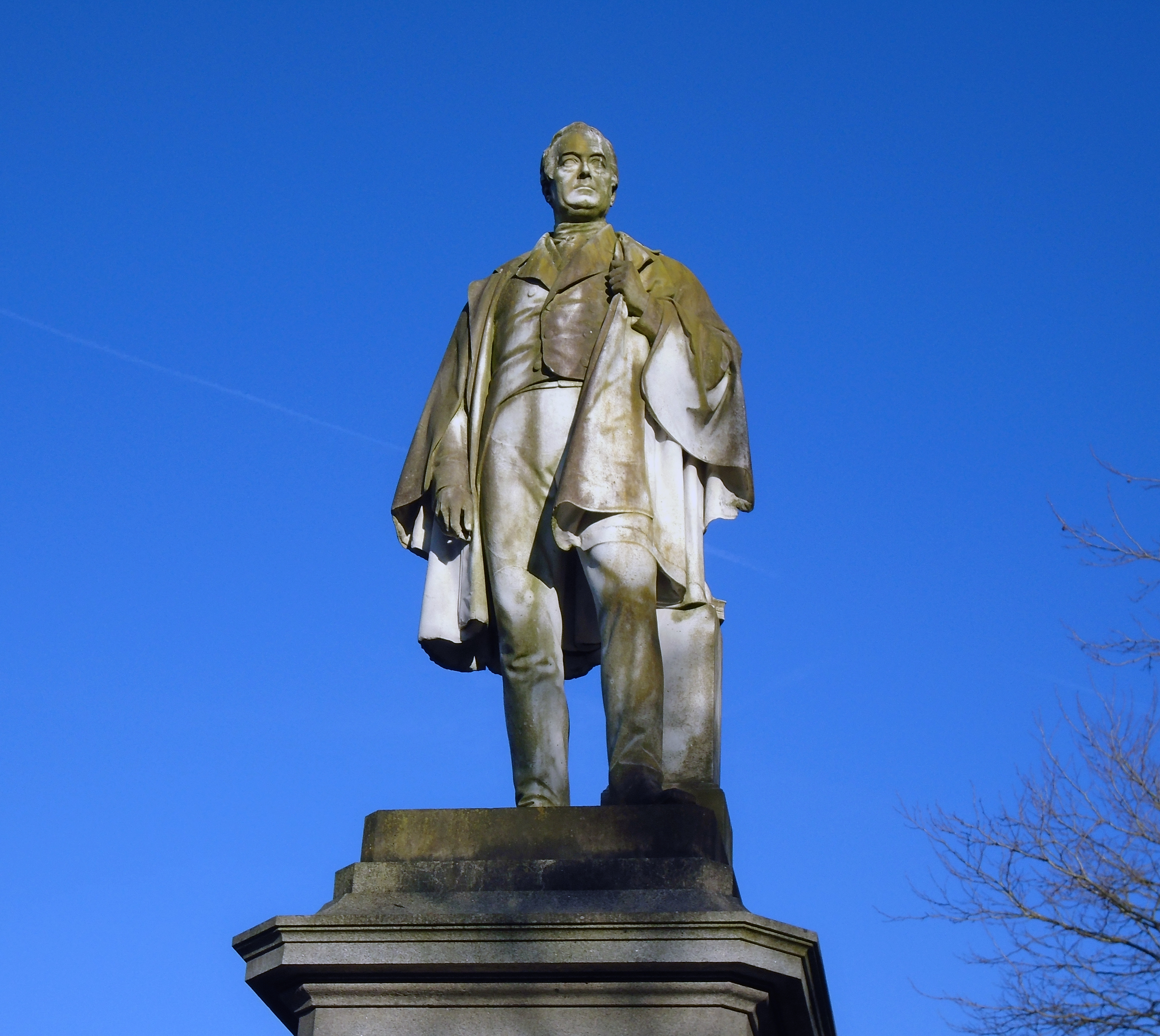 The statue itself. Needs a clean; lichen seems to be attracted to Portland stone.